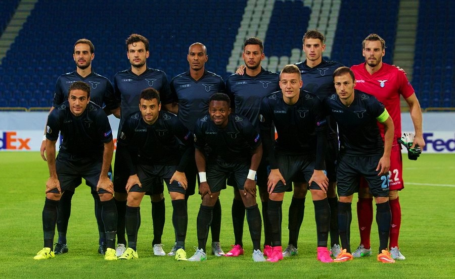 Lazio 2015